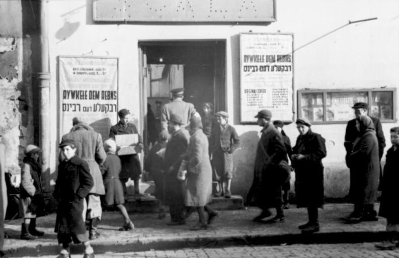 Warsaw Ghetto: Theater "El Dorado" at Dzielna 1 street near Zamenhof street showing comedy by Z. Kalmanowicz titled "Rywkełe dem rebns". Premiere on May 2 1941. Cast below.